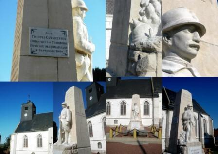 A montage of photographs of the monument aux morts at Vron in the Somme region of France. It features a sculpture by Emmanuel Fontaine- a figure of a poilu (French soldier).At the foot of the soldier lies a German helmet.